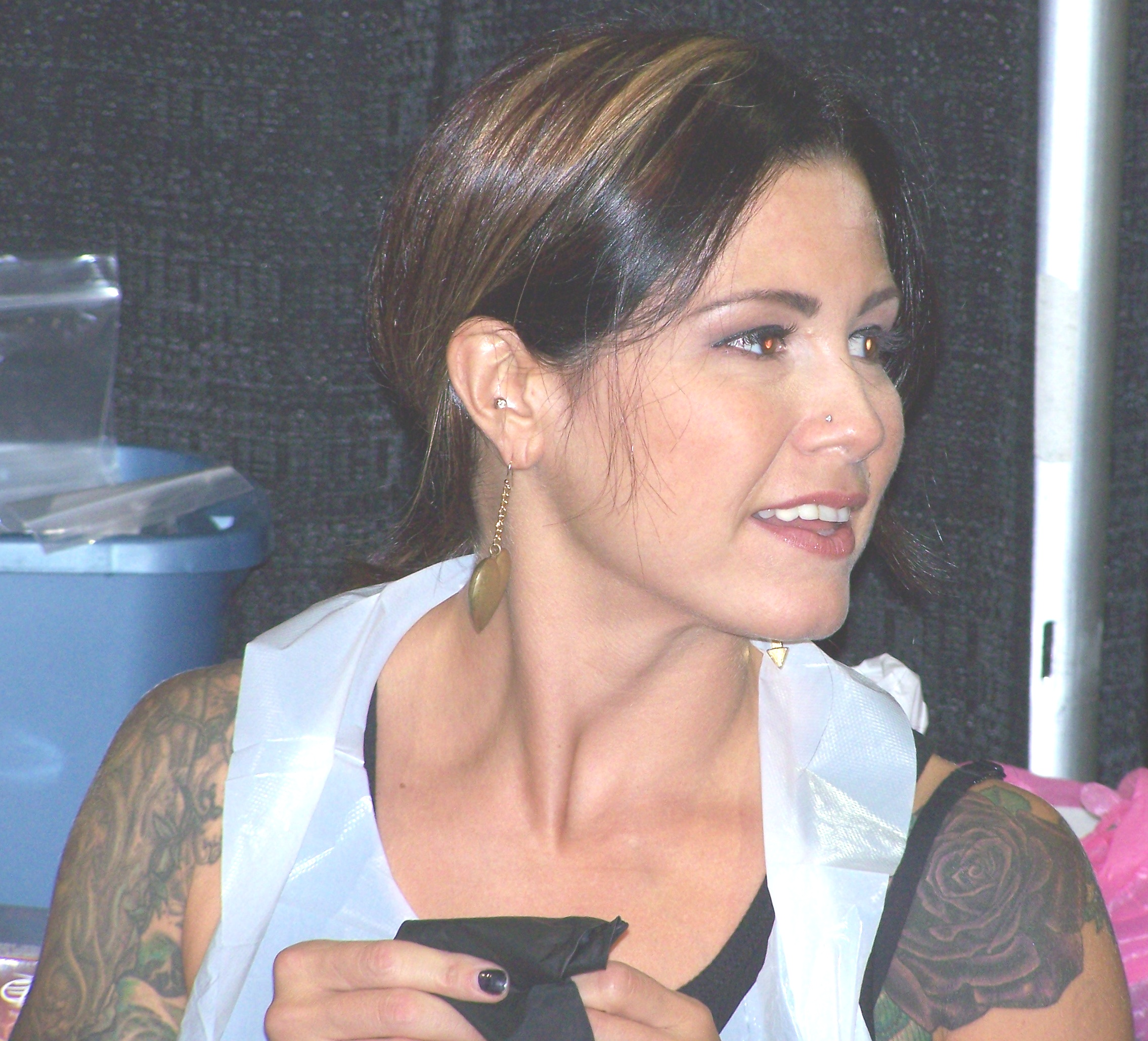 Kim Saigh, of LA Ink, at the 2007 Calgary Tattoo & Arts Festival held in the Calgary Roundup Centre, 1410 Olympic Way SE Calgary, Alberta, Canada.